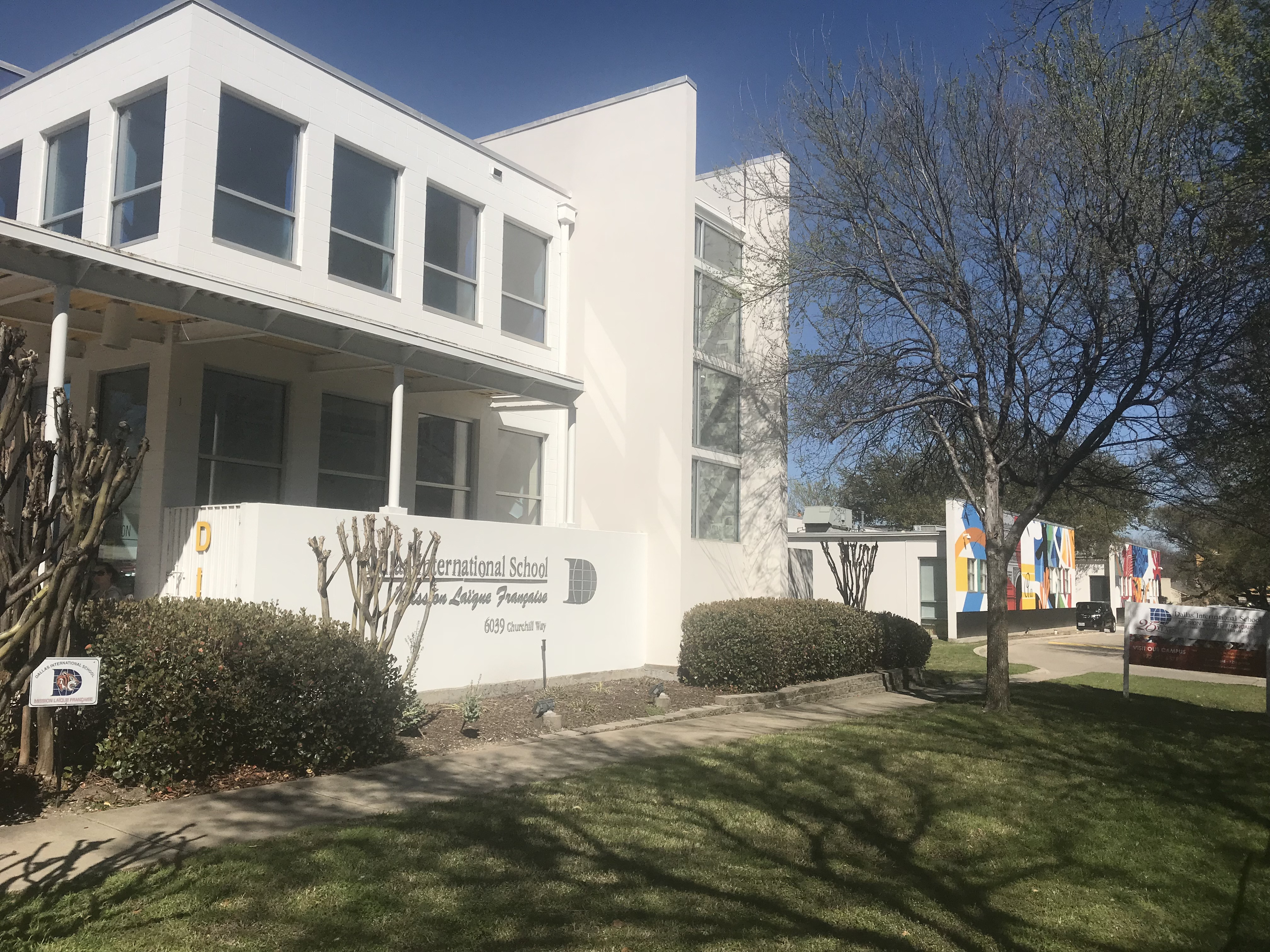 DIS CC